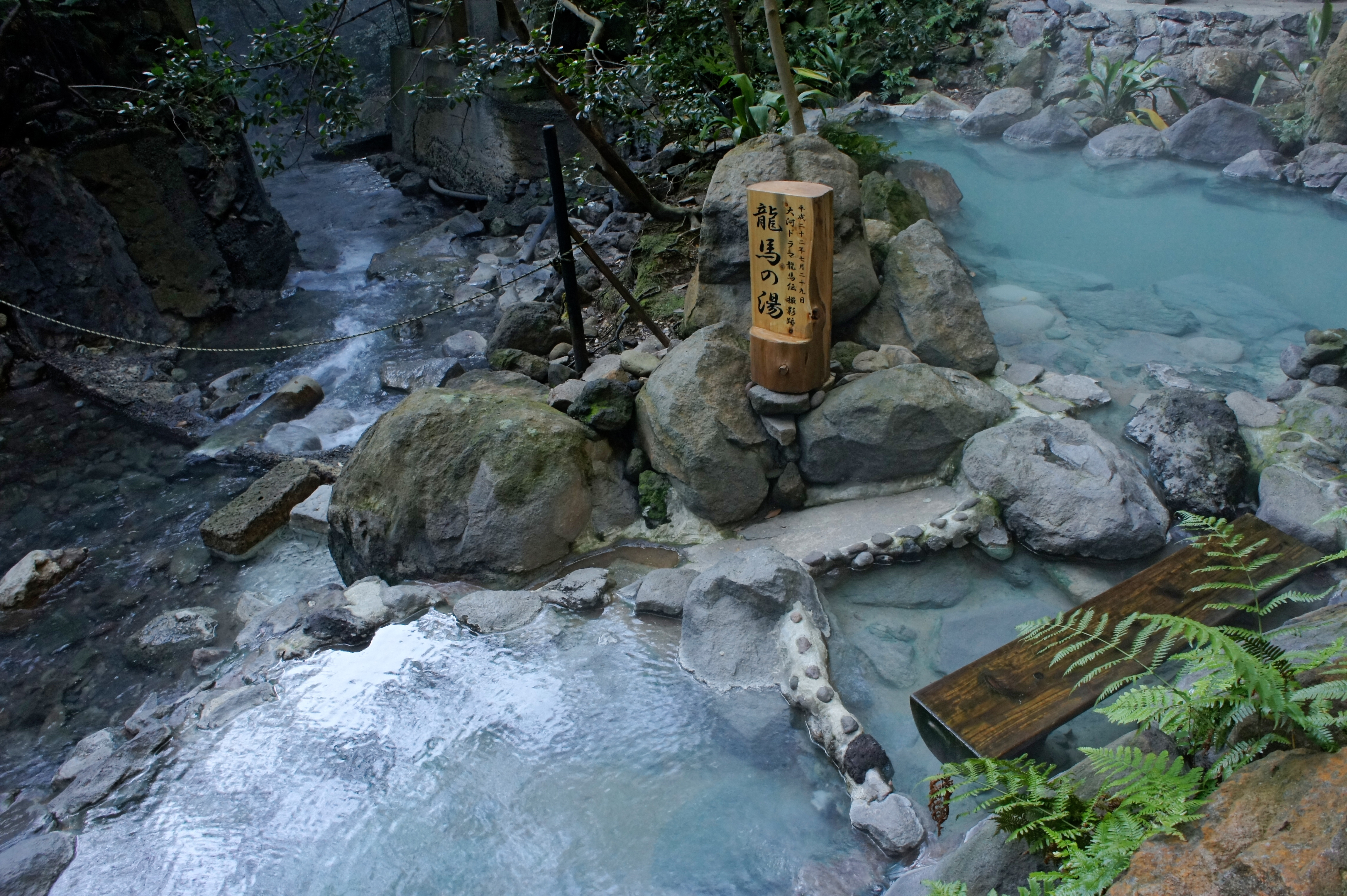 Ryokukeitouen of Eino-o Onsen in Kirishima, Kagoshima prefecture, Japan.